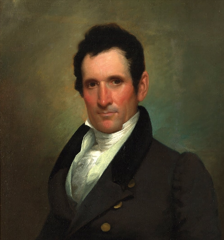 Portrait of Virginia Governor David Campbell